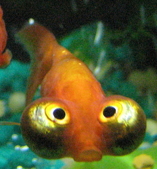 A Celestial Eye (Stargazer) goldfish